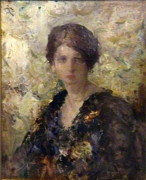 Portretto